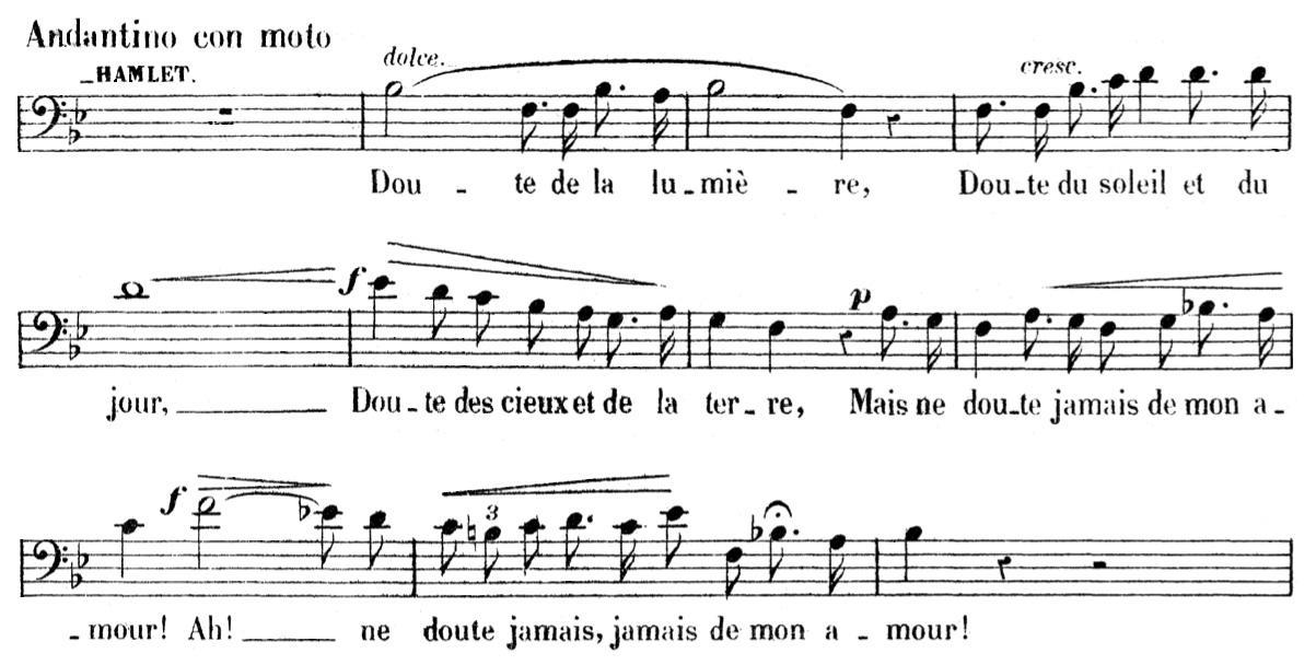 Musical score. Theme of Hamlet's Love for Ophelia from Act 1, Scene 1 (extracted and edited from the piano-vocal score, p. 30).